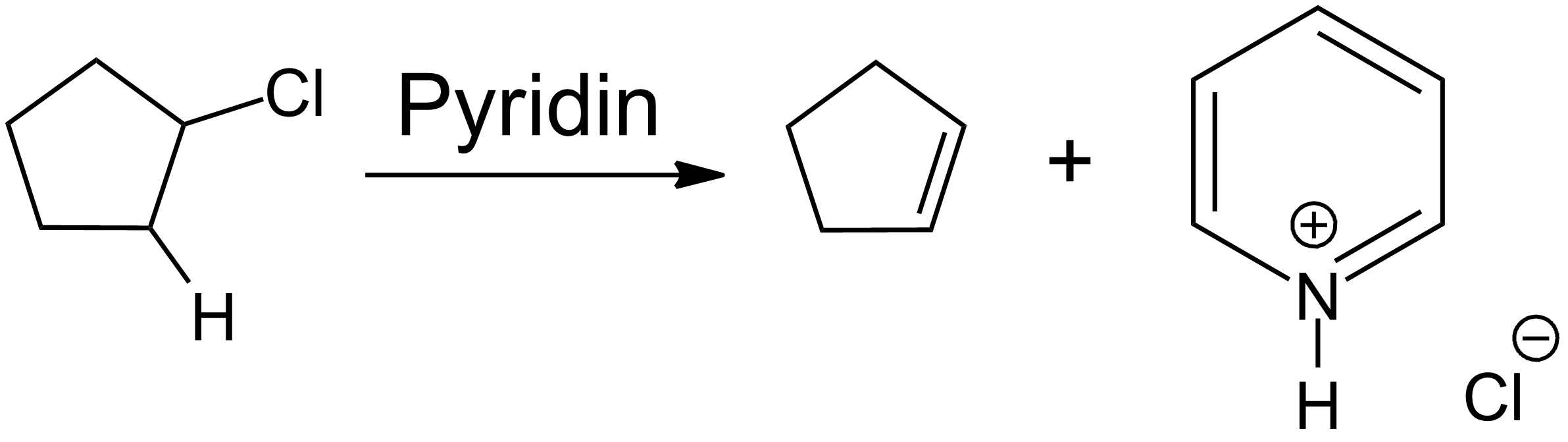 Diagram showing an elimination reaction involving chlorocyclopentane and pyridine